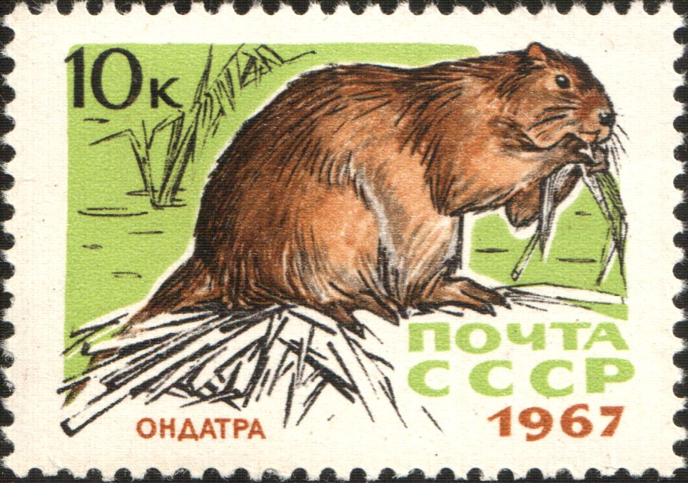 A USSR stamp